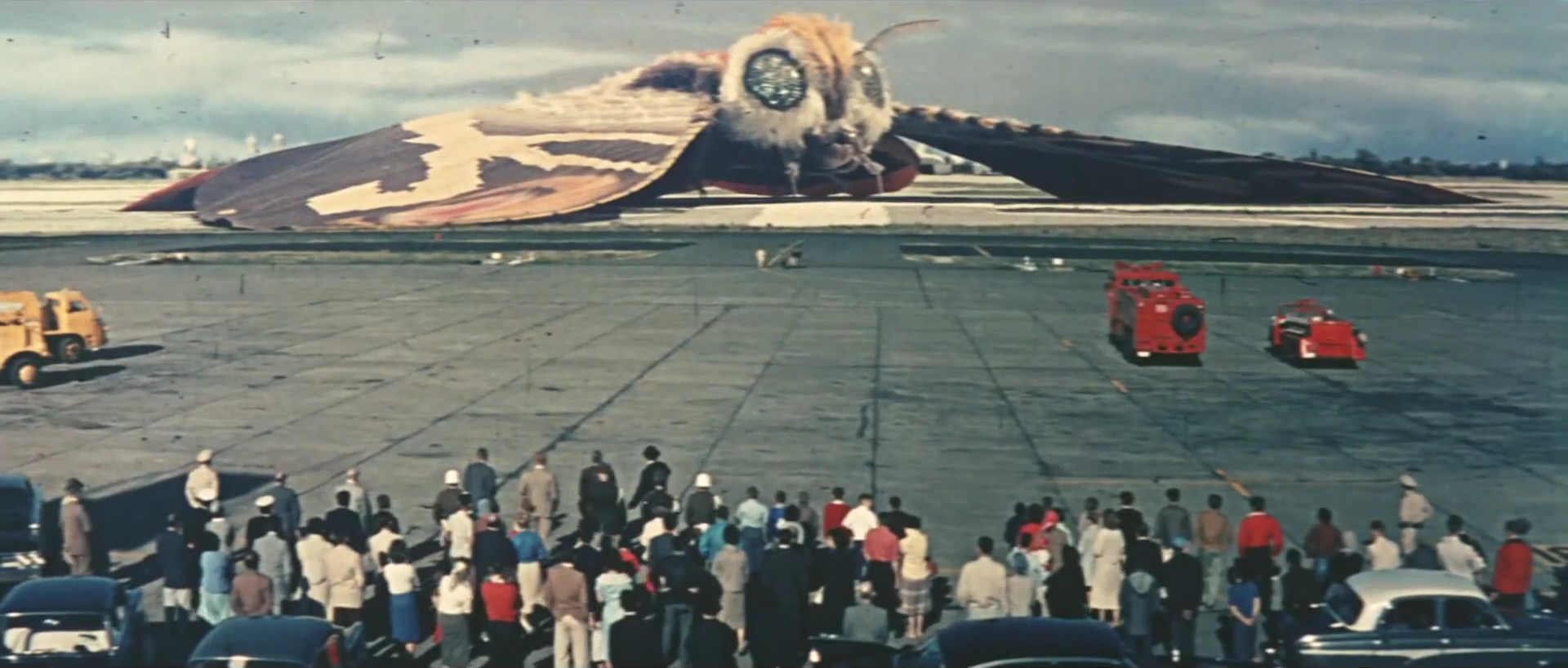 Scene from Mothra.